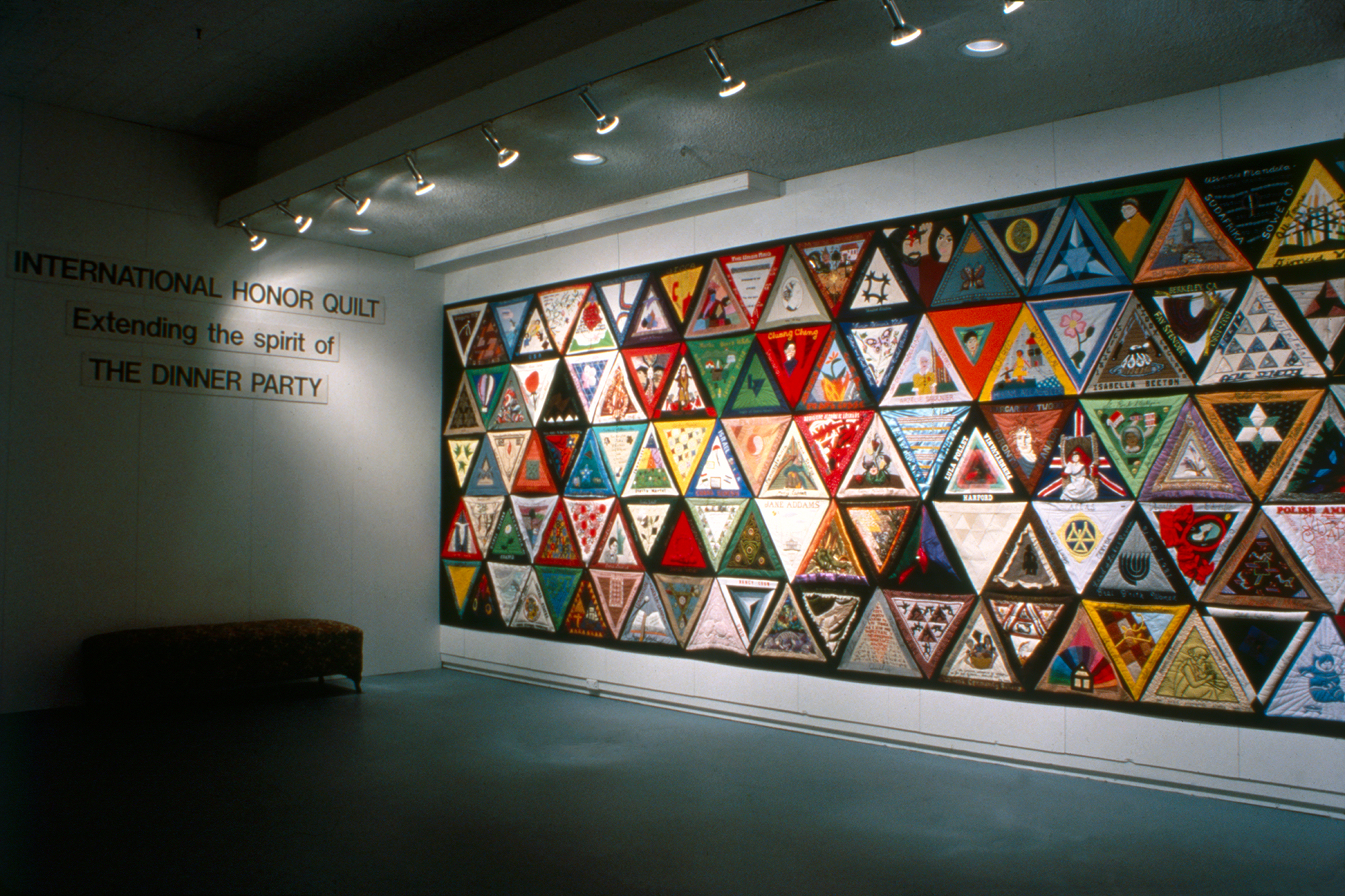 the International honor quilt, extending Judy Chicago's installation "The Dinner Party". The triangles of the quilt are made by approx. 600 artisans, artists, professional and amateurs. The work started in 1980, initiated by Chicago. The photo is from an exhibition in Australia, 1988